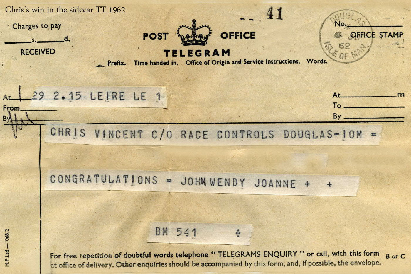 Congratulatory telegram sent by John and Wendy Warren to Chris Vincent on the occasion of his sidecar race win at the 1962 Isle of Man TT races.